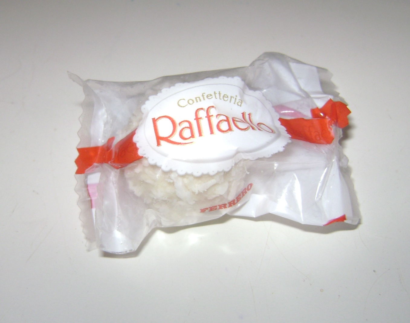 Sweets